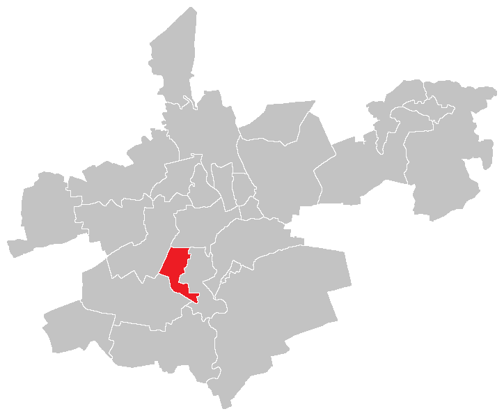 Location map of Olomouc district Povel